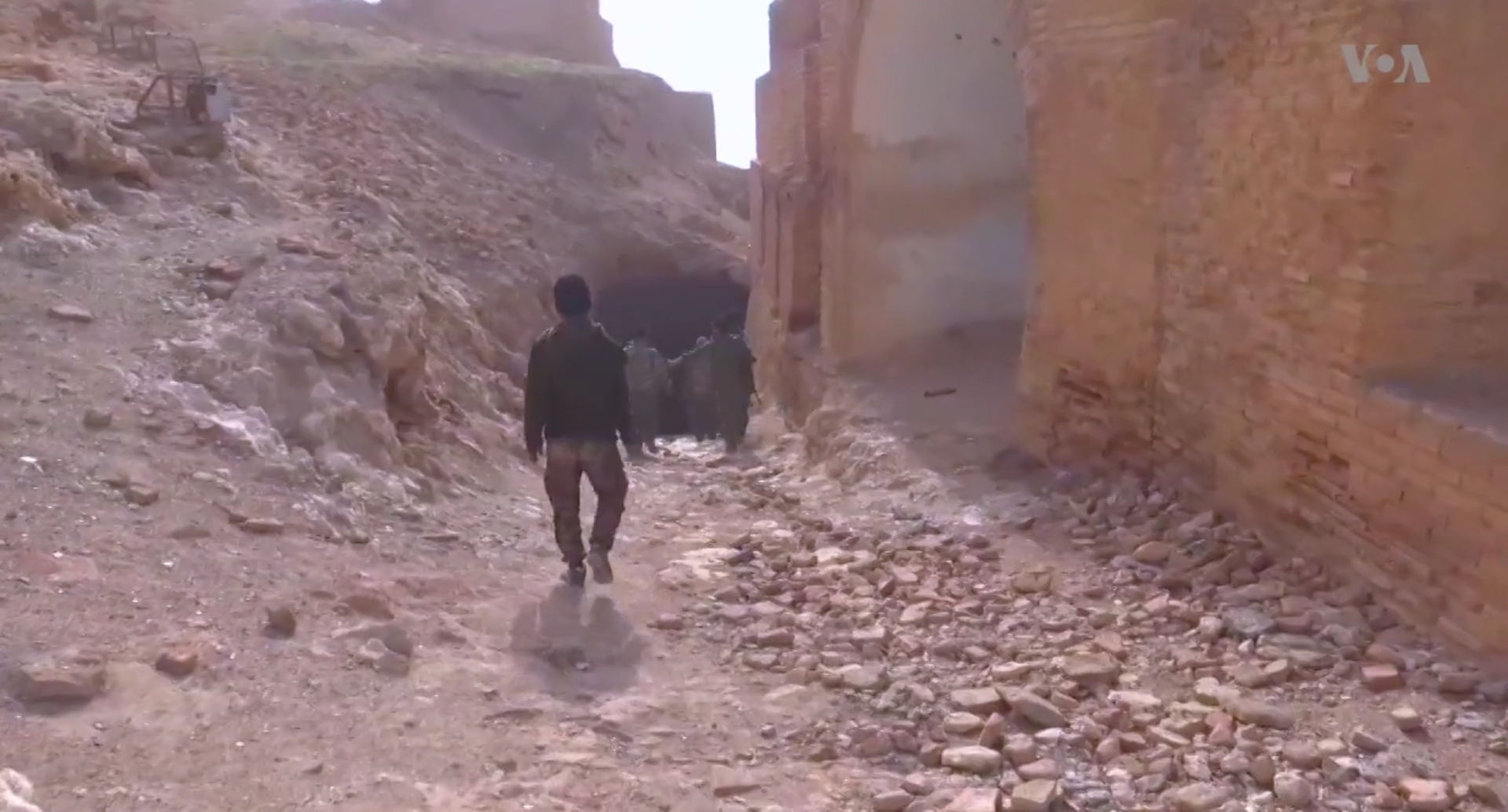 SDF fighters at Jabar Castle after capturing it from ISIL.